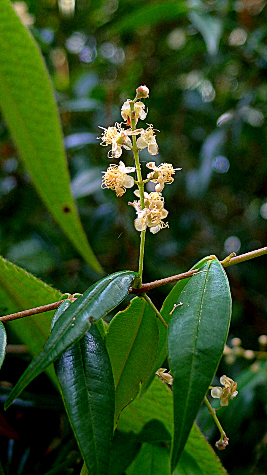 Myrcia sylvatica (Mey.) DC.